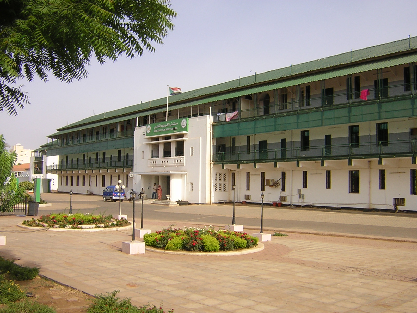 Khartoum Teaching Hospital, Khartoum, Sudan.